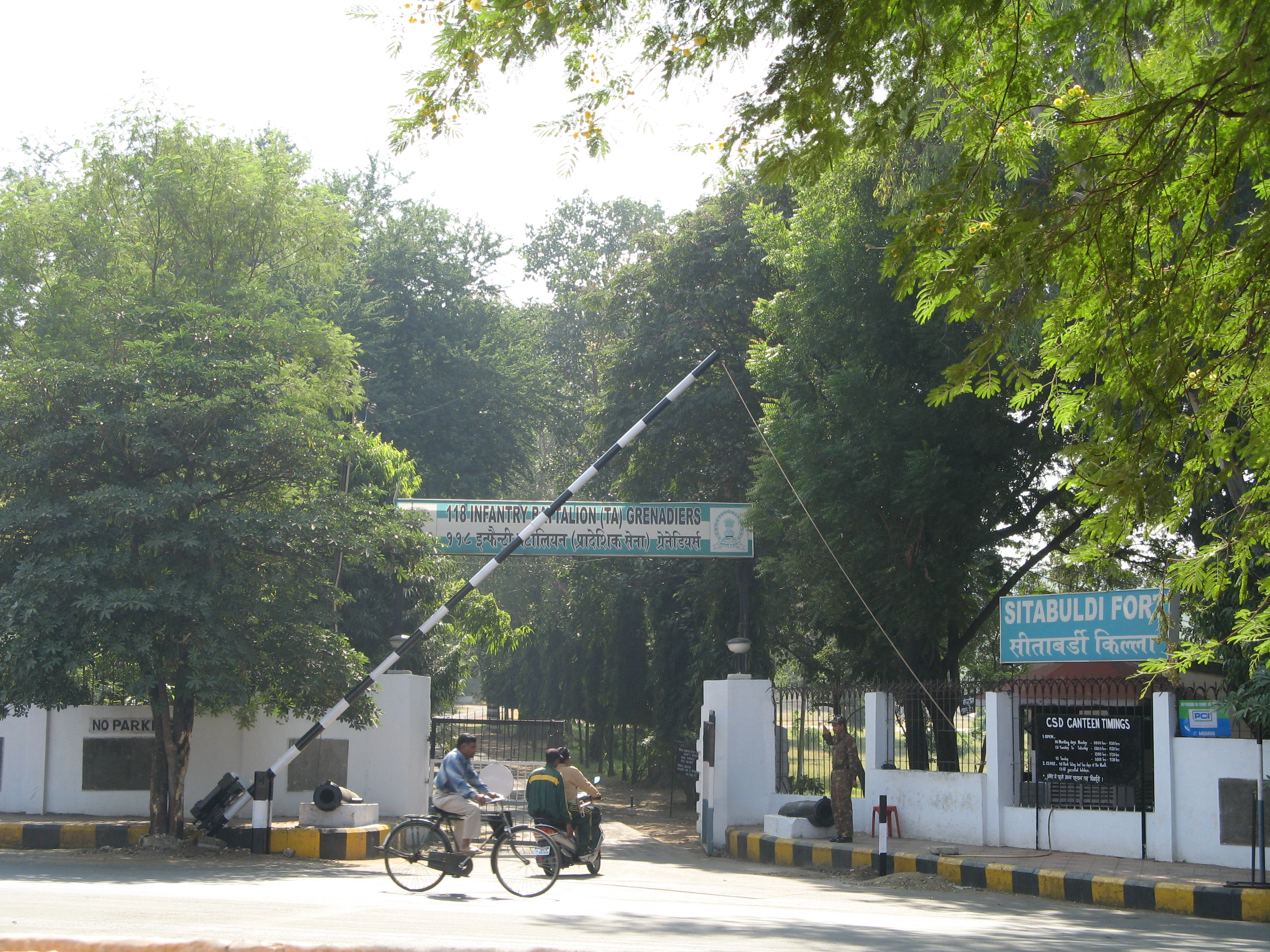 Nagpur Sitabuldi fort gate. Now an army barrack.